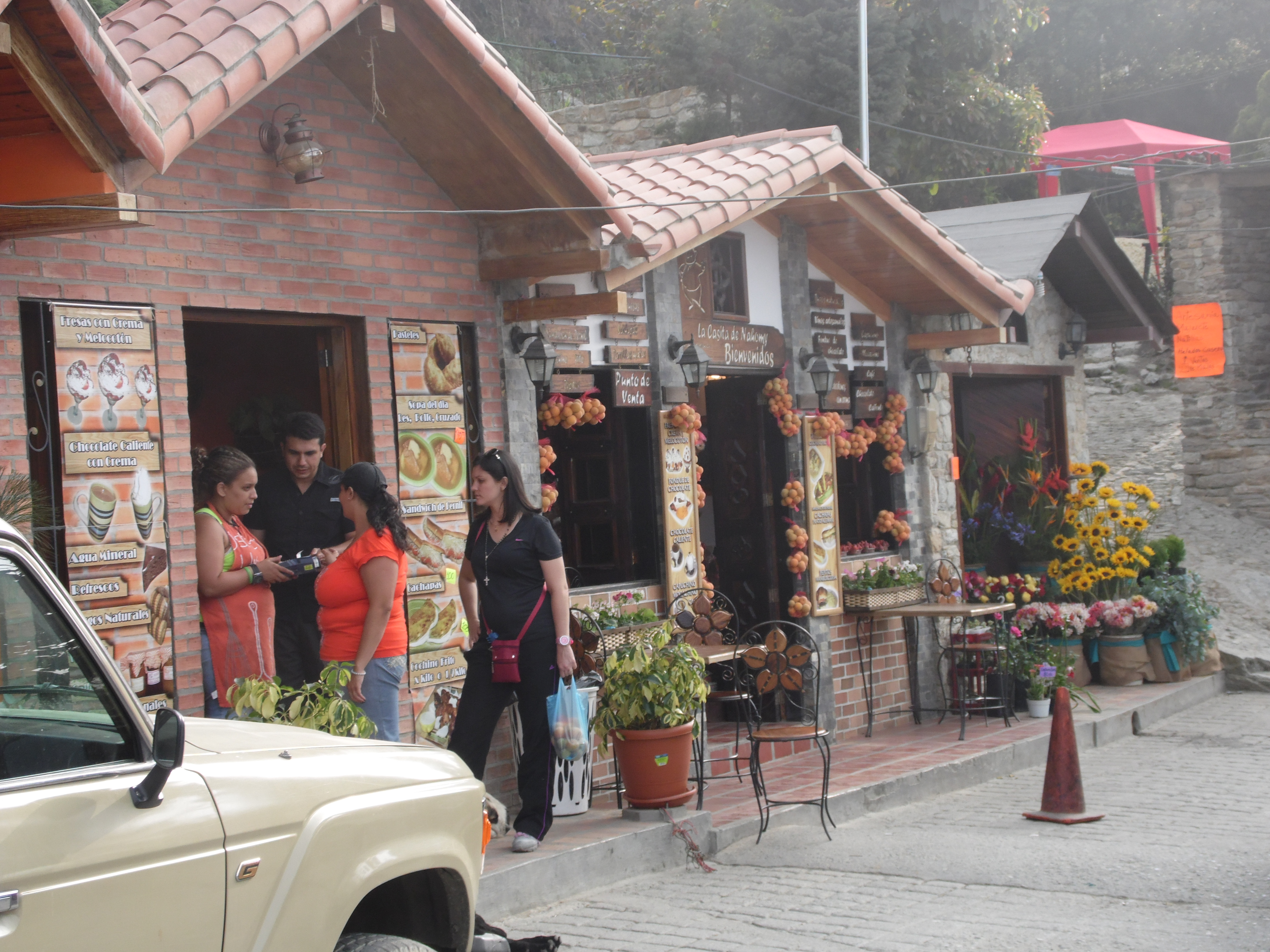 Galipan's Town.